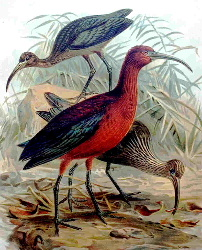 Glossy Ibis image from